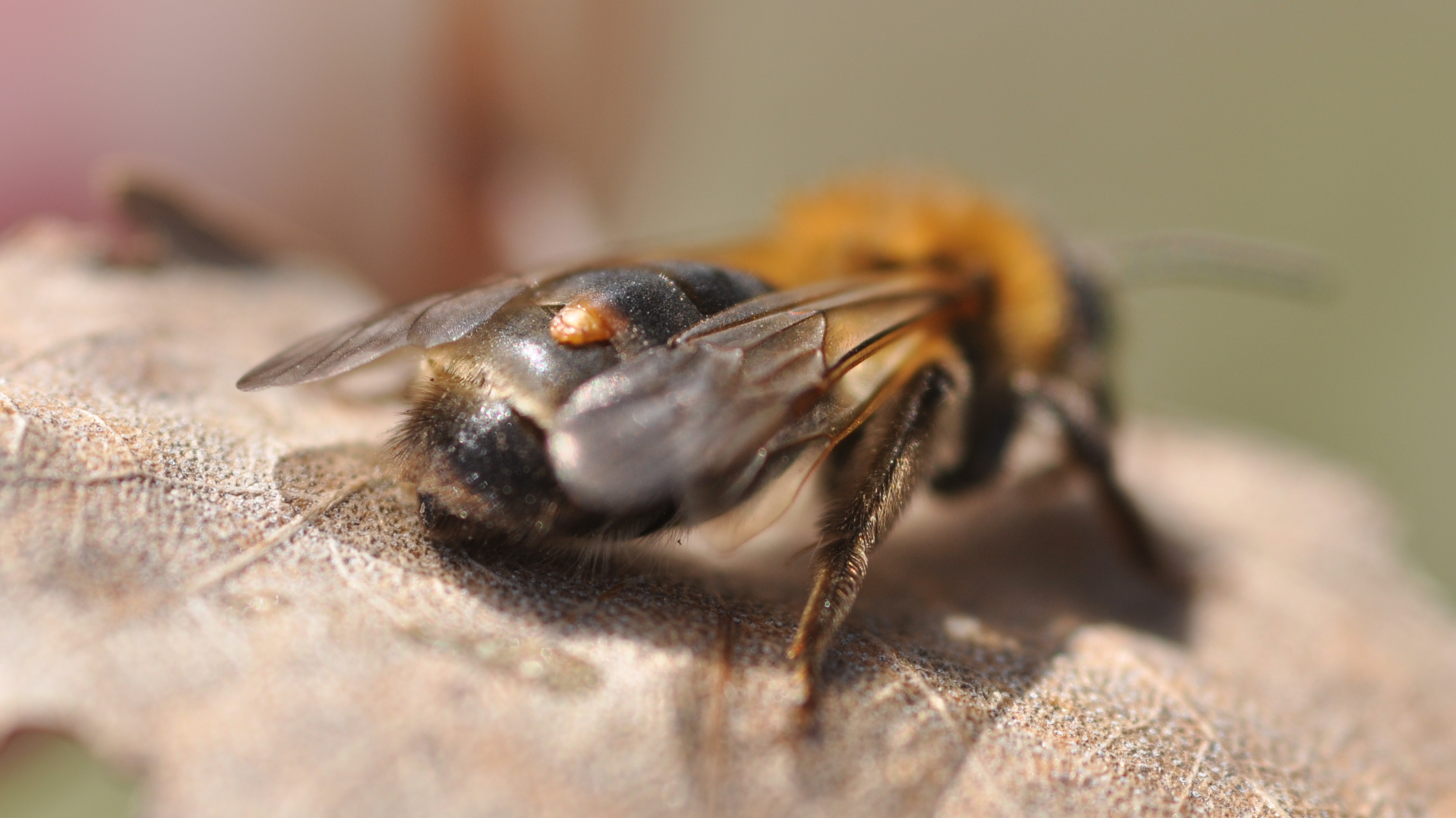 Probably Grey-patched mining bee stylopised in Bahrenfeld, Hamburg.